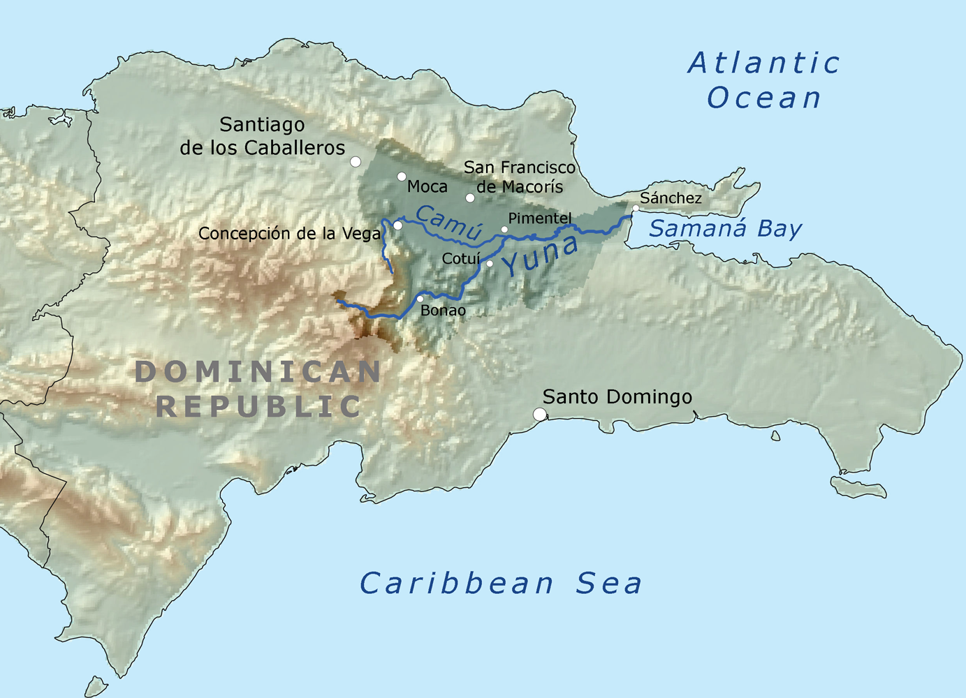 Map showing the Yuna River drainage basin including its largest tributary and cities.